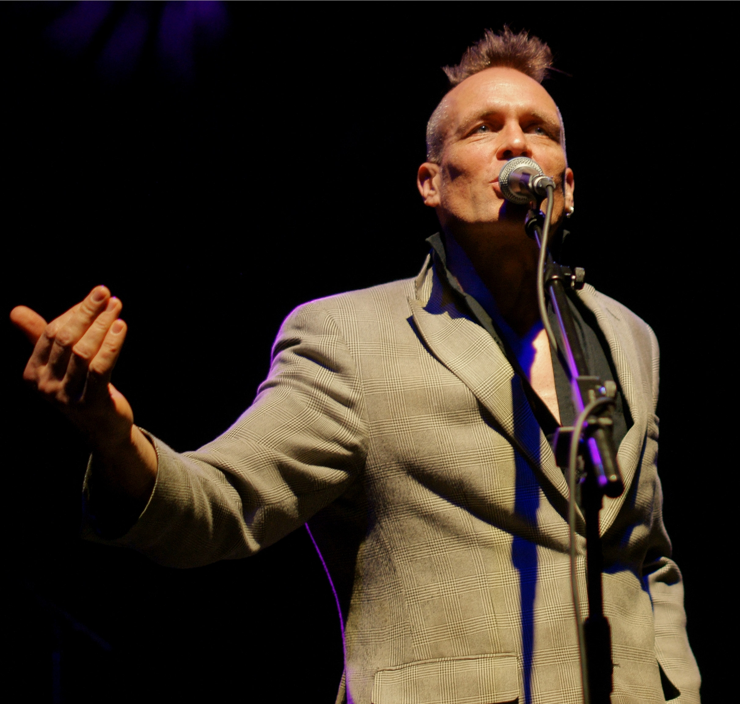 John Robb performing at Justice Tonight : In Aid of the Hillsborough Justice Campaign, HMV Ritz Manchester on Friday the 2nd of December 2011.